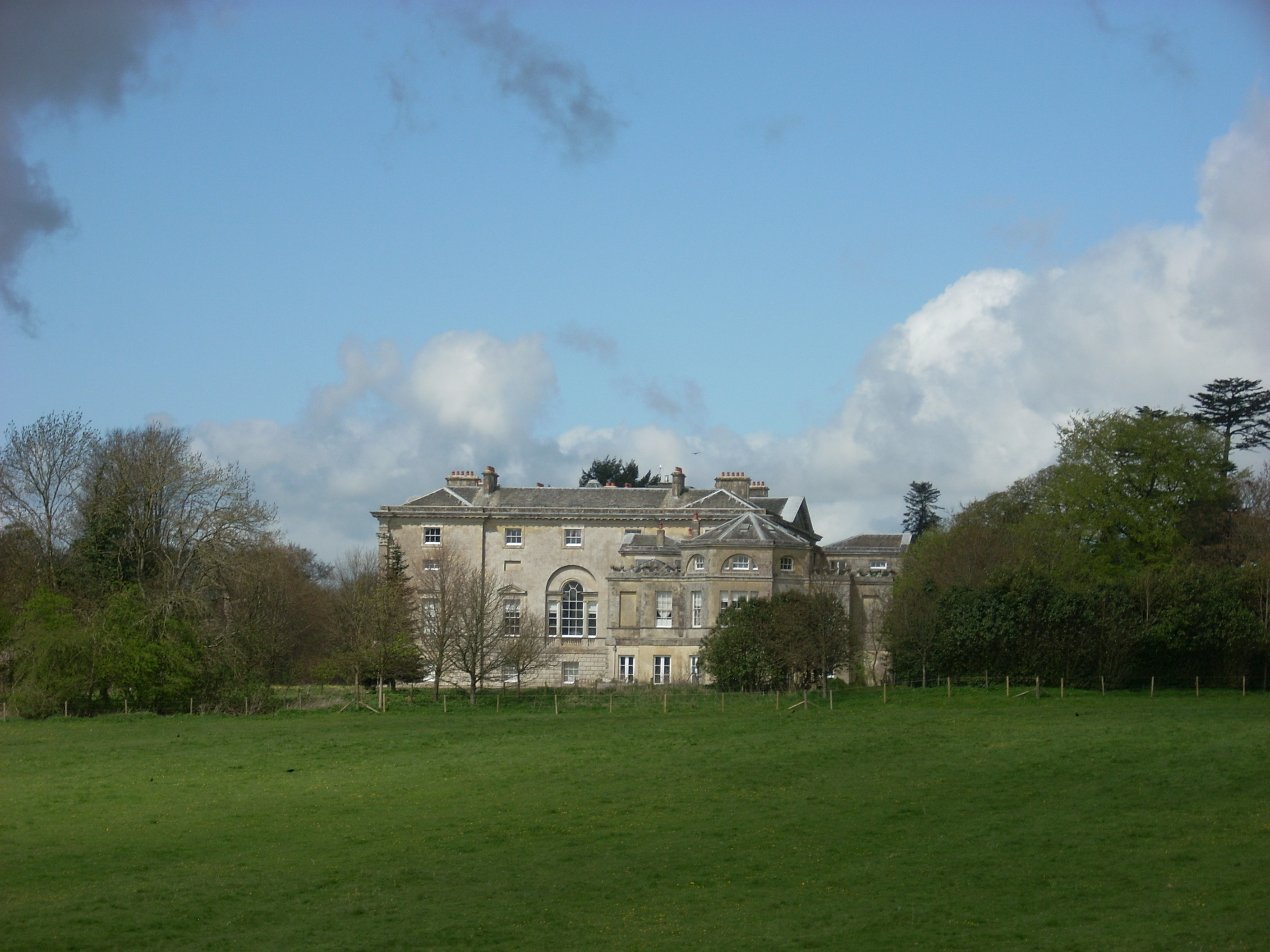 New Wardour Castle, near Tisbury, Wiltshire, UK.